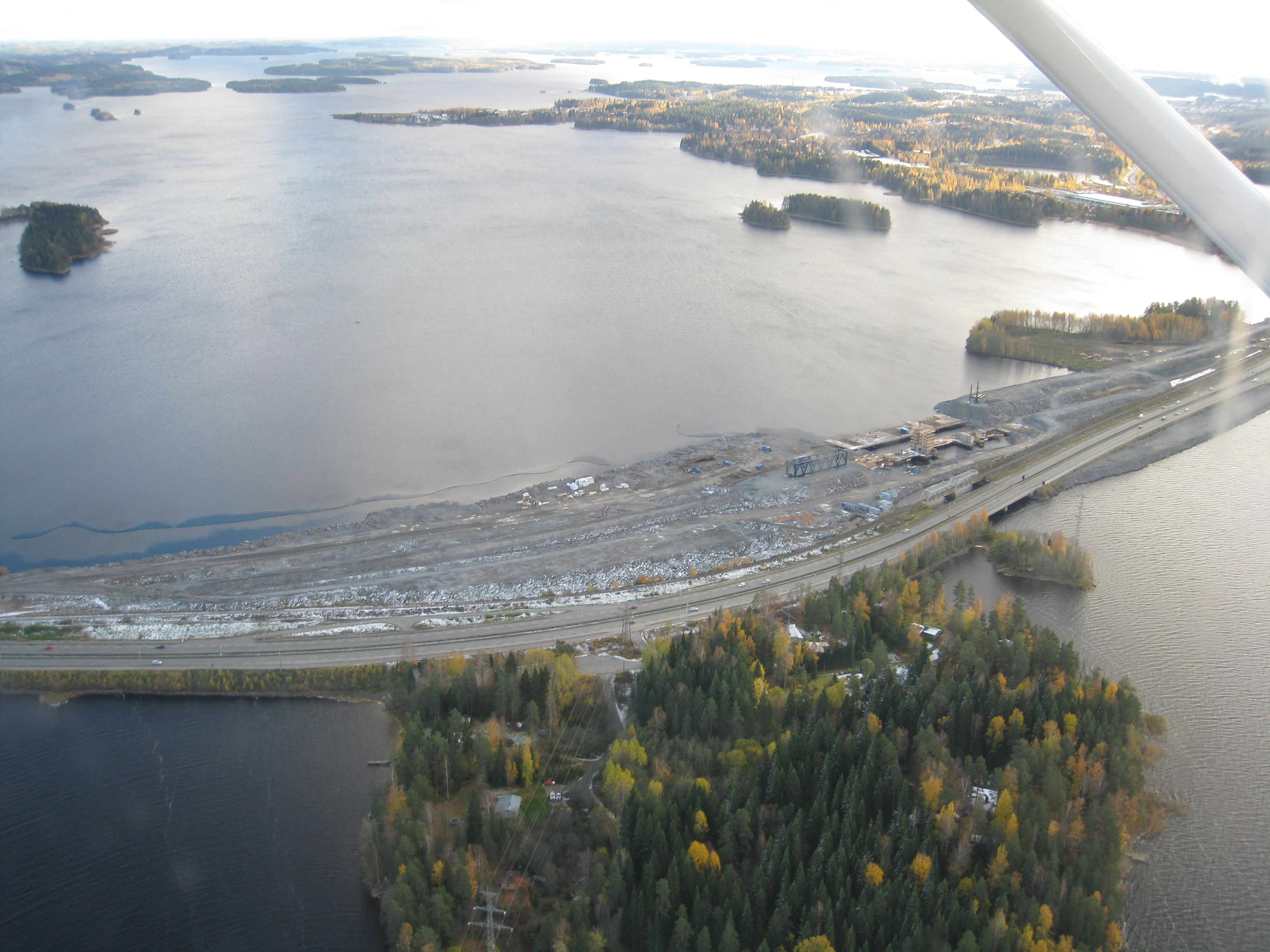 Aerial photograph of Kallansillat roadwork on highway 5/9/E63 and on Kouvola–Ịisalmi railway in Kuopio, Finland. Tikkalansaari island on the foreground and Lake Kallavesi on the background.